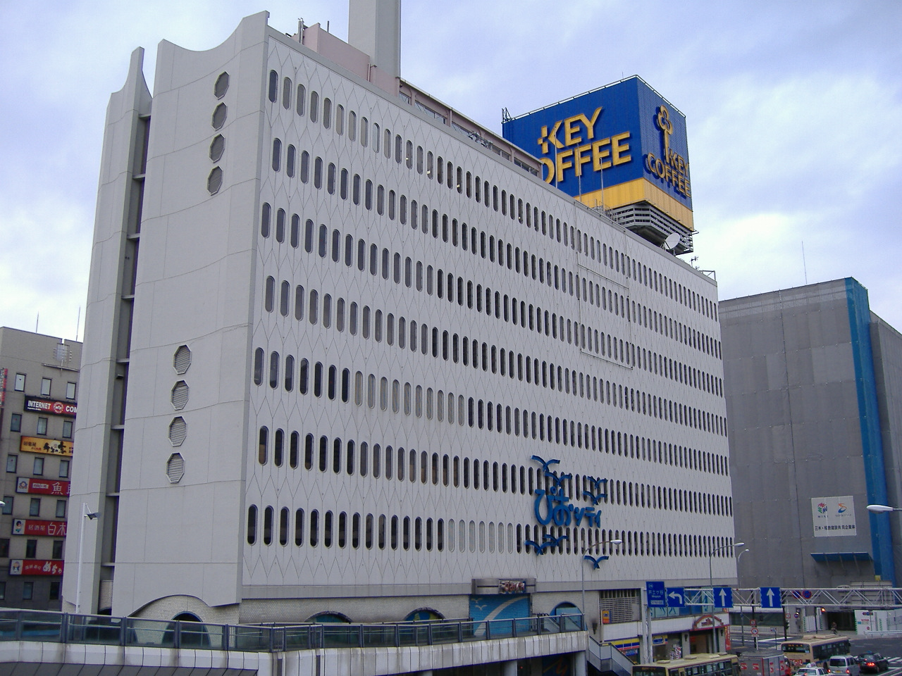 Shoppingmall PioCity(Yokohama Sakuragicho)